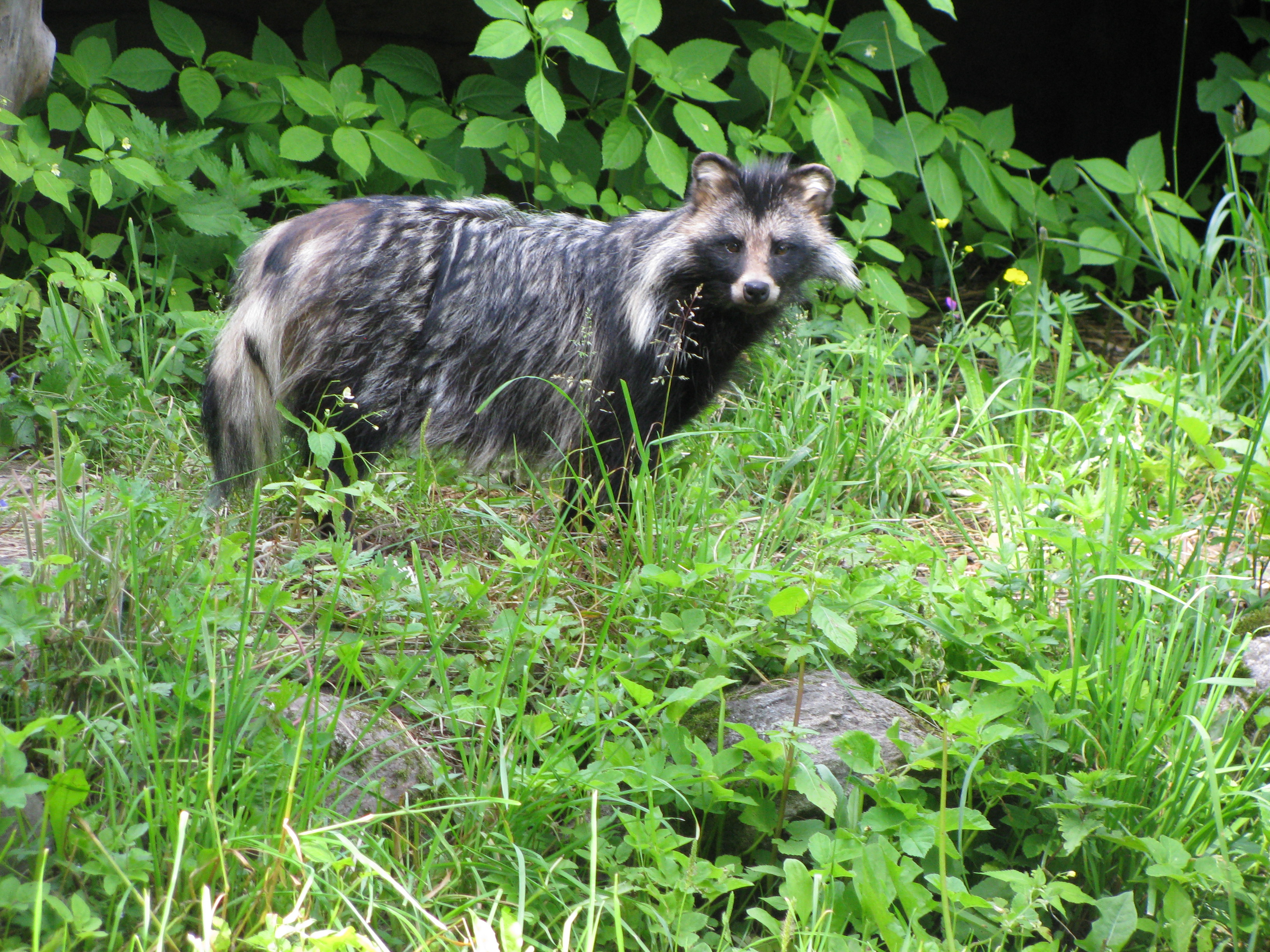 Raccoon dog (Nyctereutes procyonoides) in Elivstvere animal park, Jõgeva county, Estonia